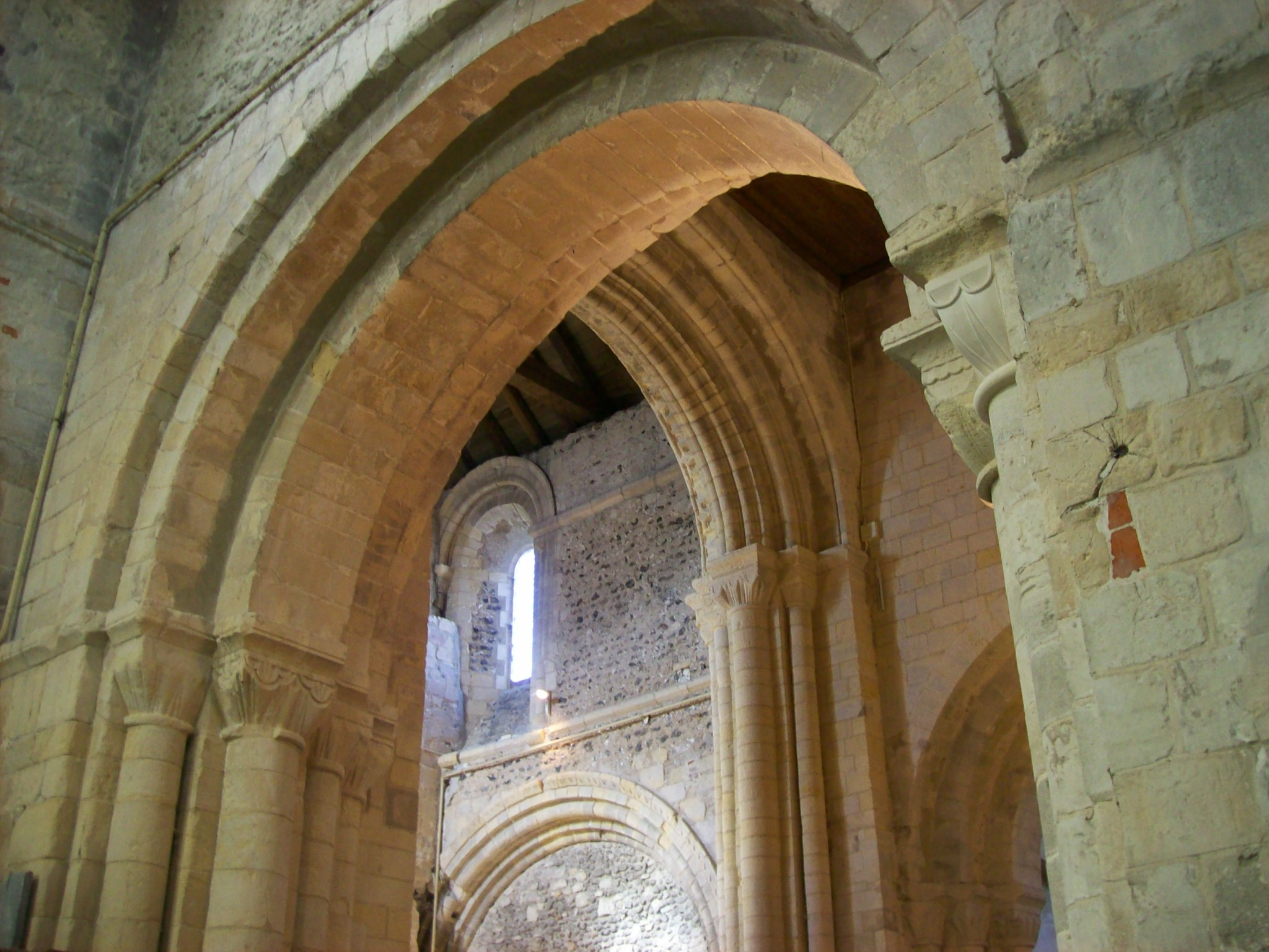 St Mary de Haura, Shoreham, west end